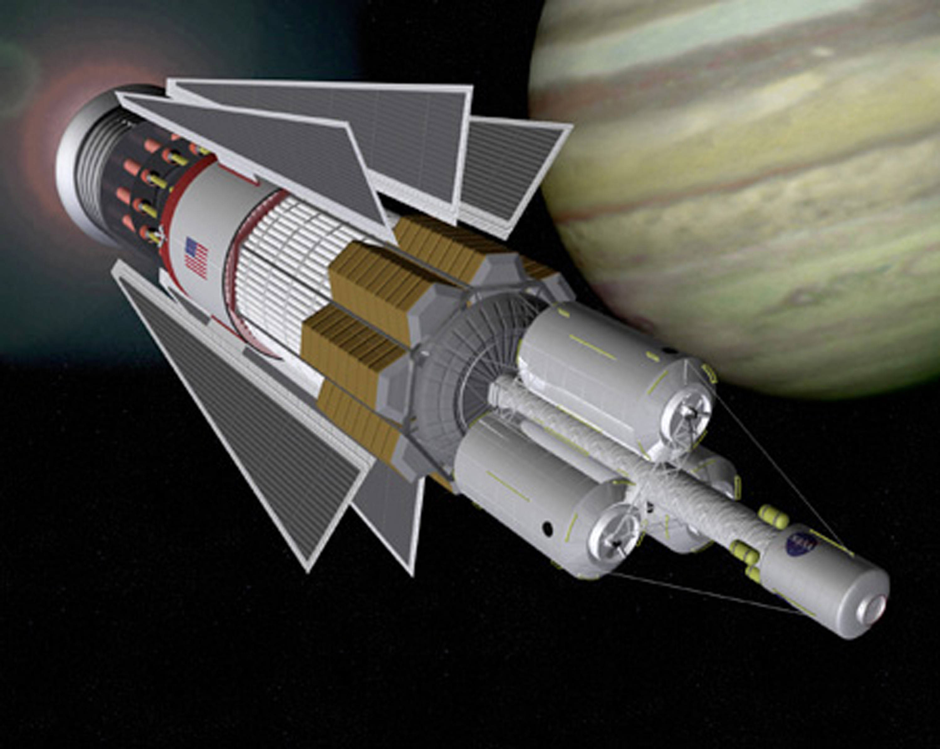 In the 1960's U.S. Government laboratories, under Project Orion, investigated a pulsed nuclear fission propulsion system. Based on Project Orion, an interplanetary vehicle using pulsed fission propulsion would incorporate modern technologies for momentum transfer, thermal management, and habitation design.